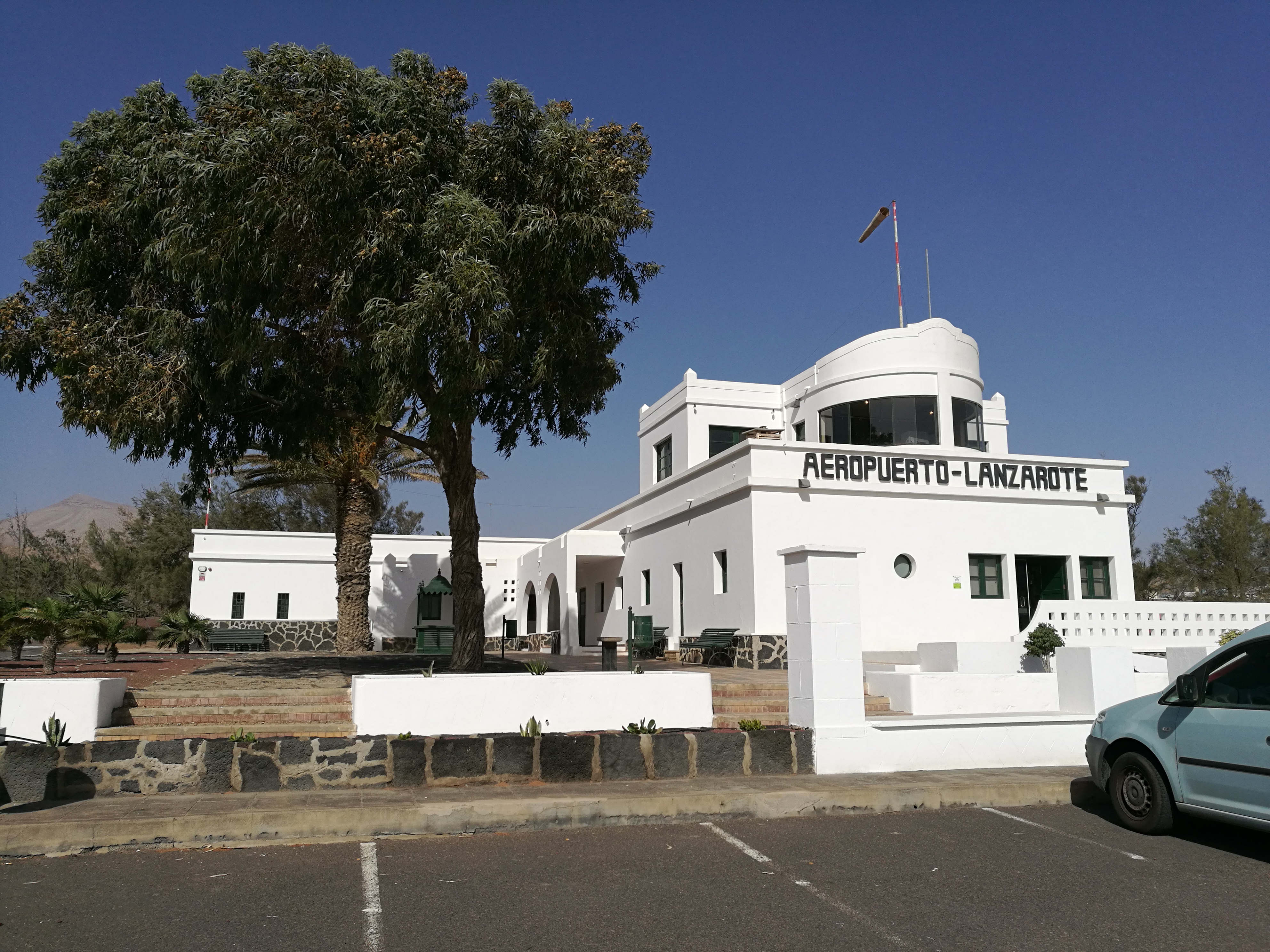 The first passenger terminal, which operated from 1946 to 1970. Now it hosts the Aeronautical Museum of Lanzarote Airport.